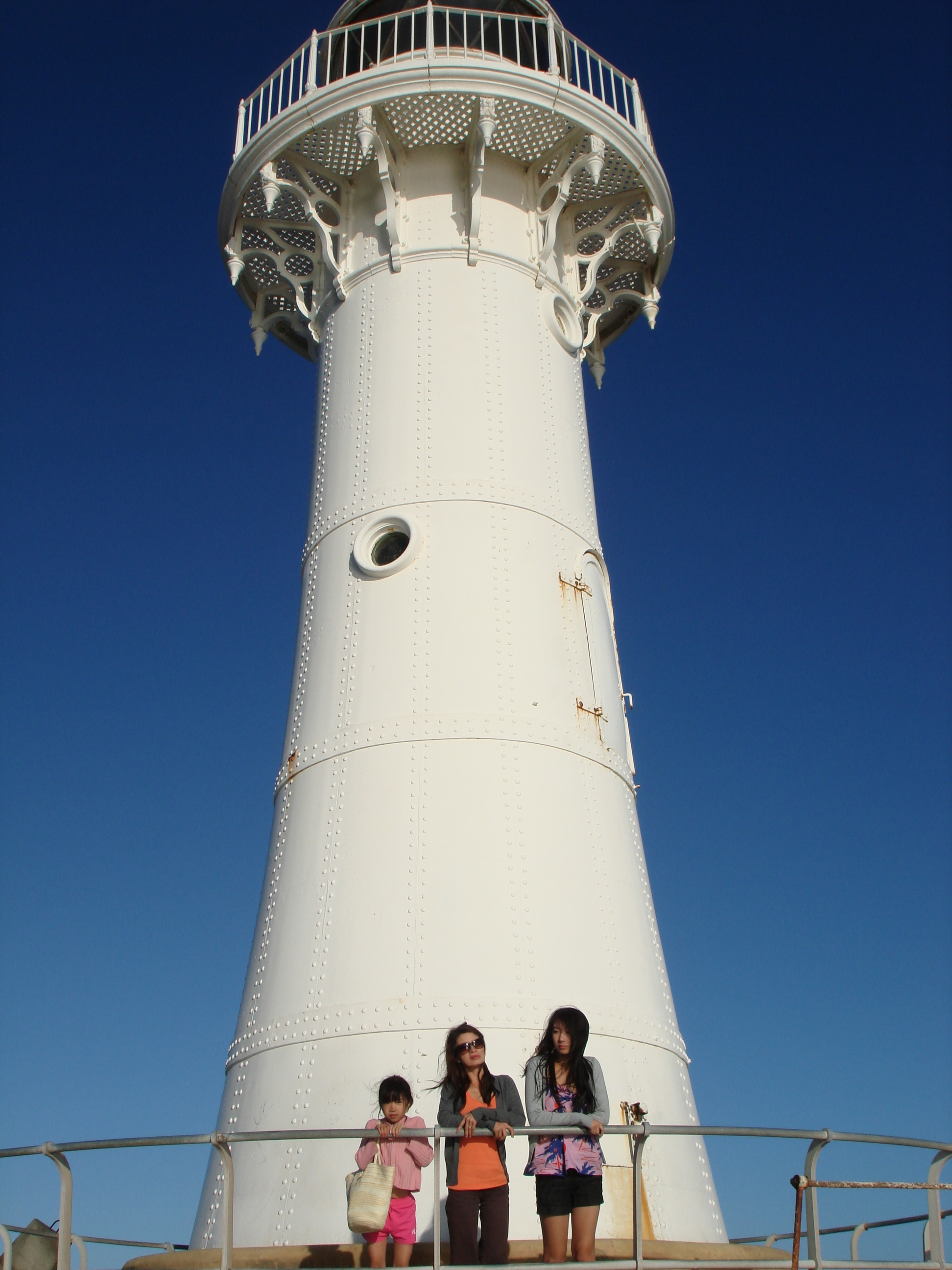 Wollongong Breakwater Lighthouse